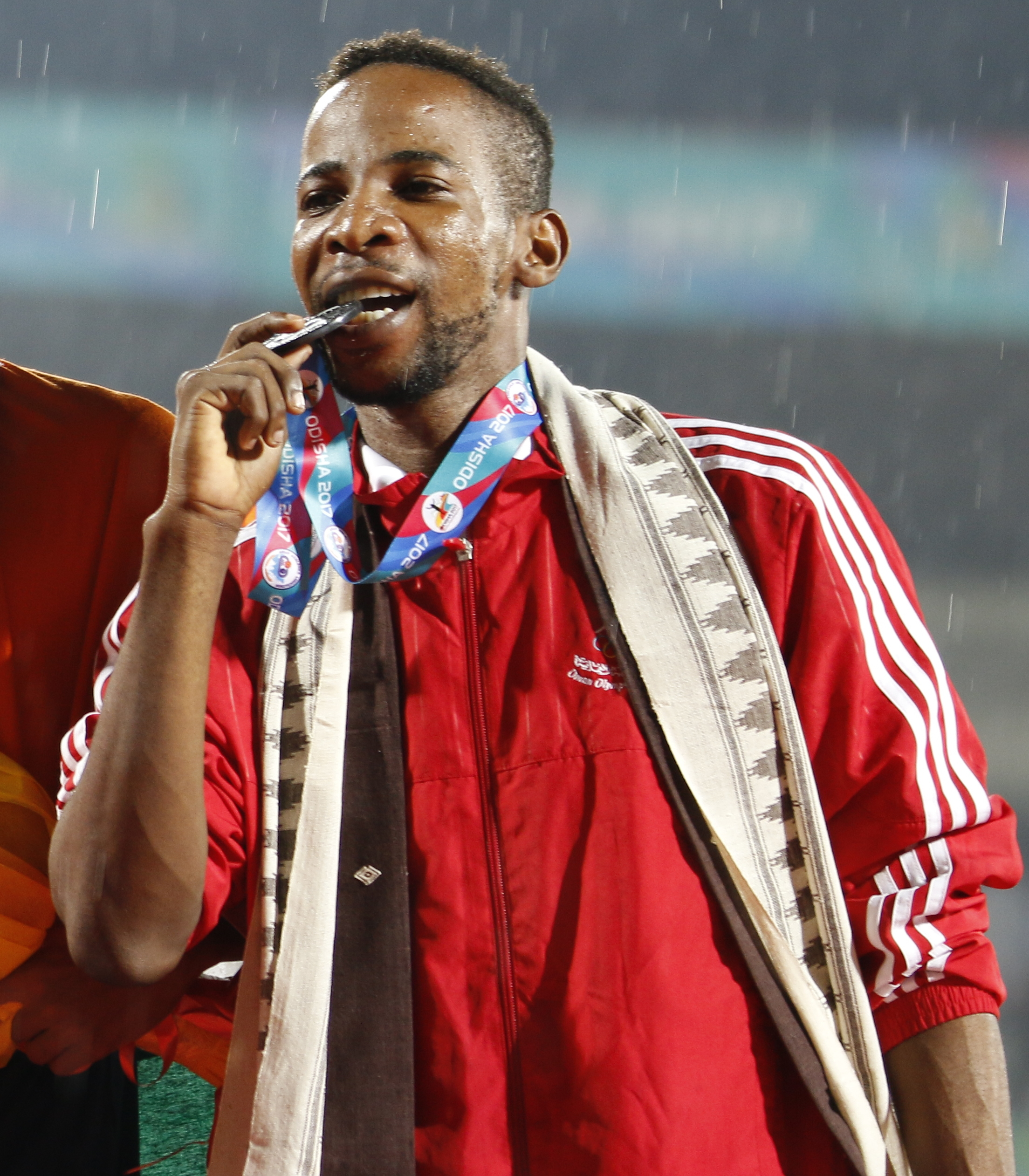 Athletes during 22nd Asian Athletics Championships in Bhubaneswar.